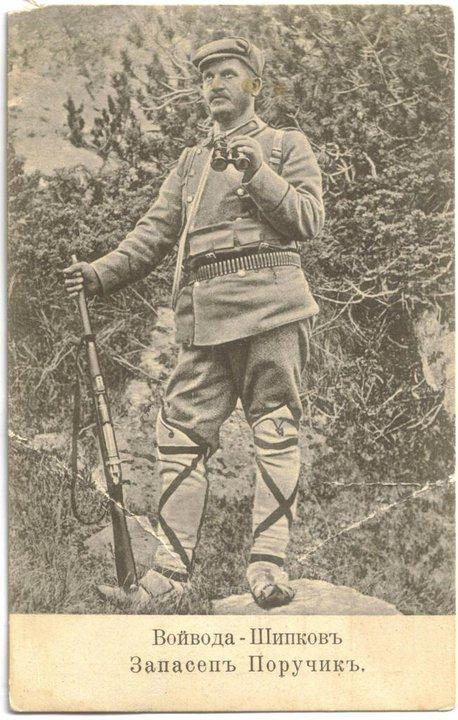 Portrait of Bulgarian revolutionary from IMARO Anton Shipkov from Kazanlak